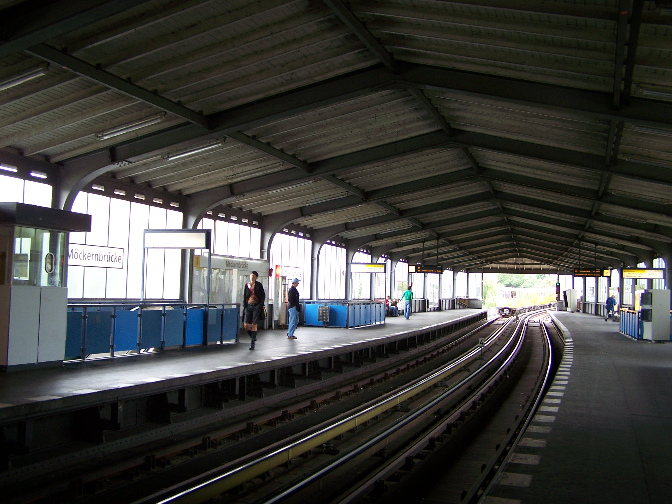 platfom of the elevated station Möckernbrücke, line U1, of the Berlin U-Bahn, Germany